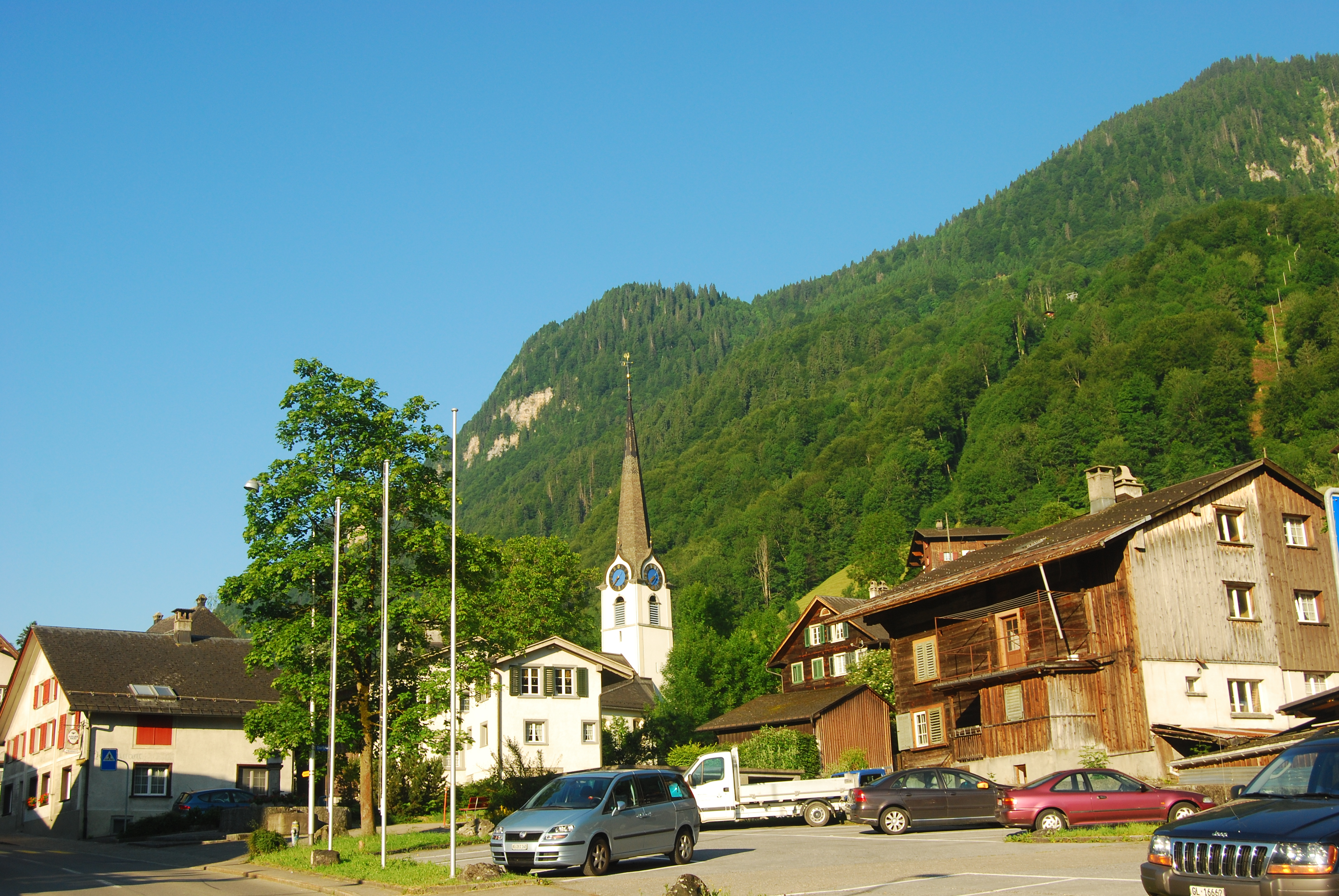 Church of Luchsingen, canton of Glarus, Switzerland